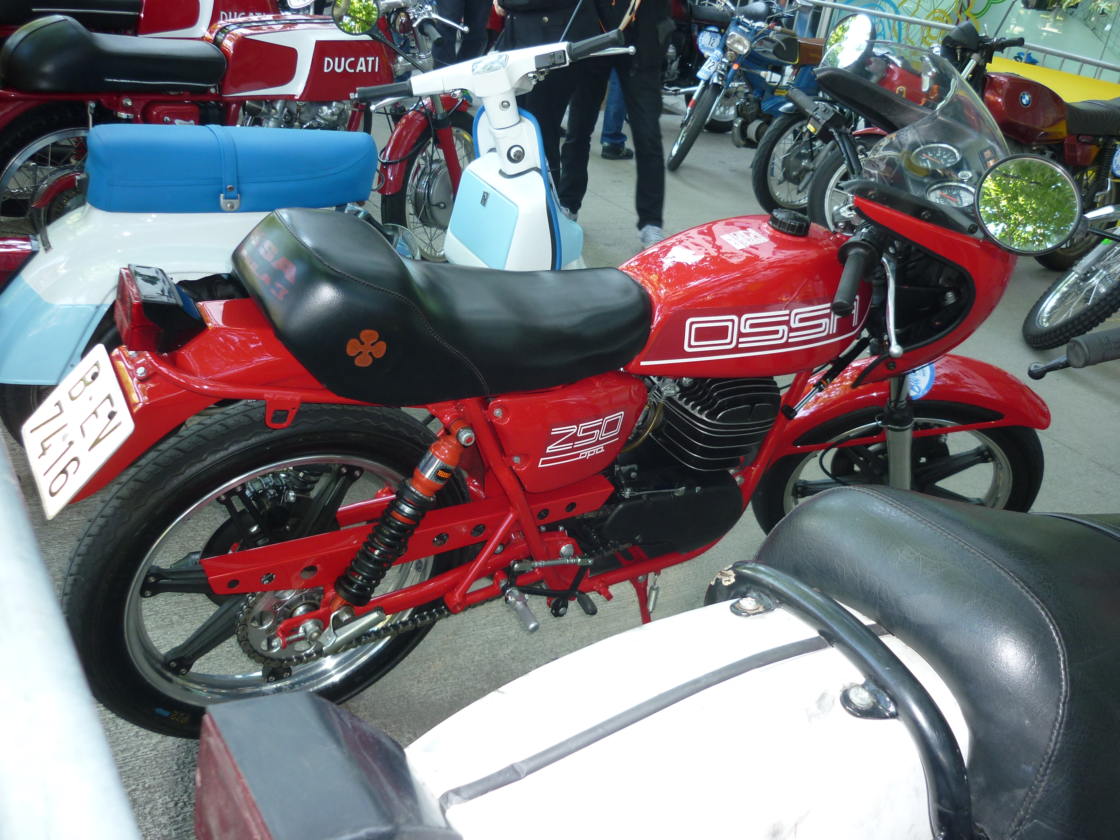 OSSA 250 Copa "Formula 3", 1981